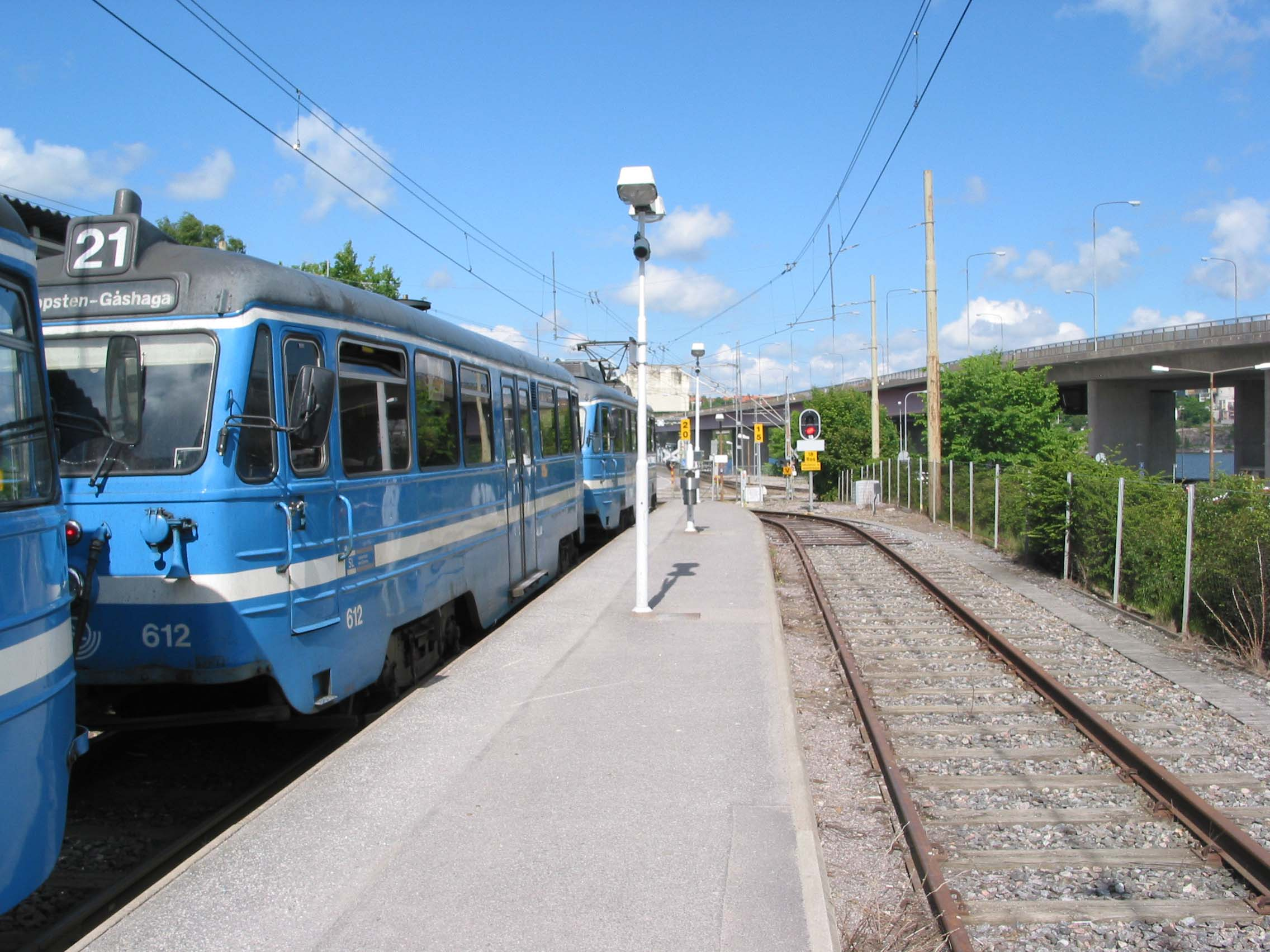 A train on the Lidingöbanan at Ropsten station.